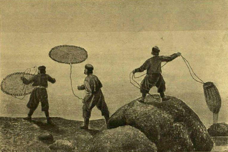 Fishing in Crimea (Ukraine) From the book of János Jankó A magyar halászat eredete (The source of the Hungarian fishing), 1900.